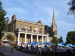 Clissold Park Café (aka Clissold Park Mansion), 4 September 2005. Credit: Fin Fahey